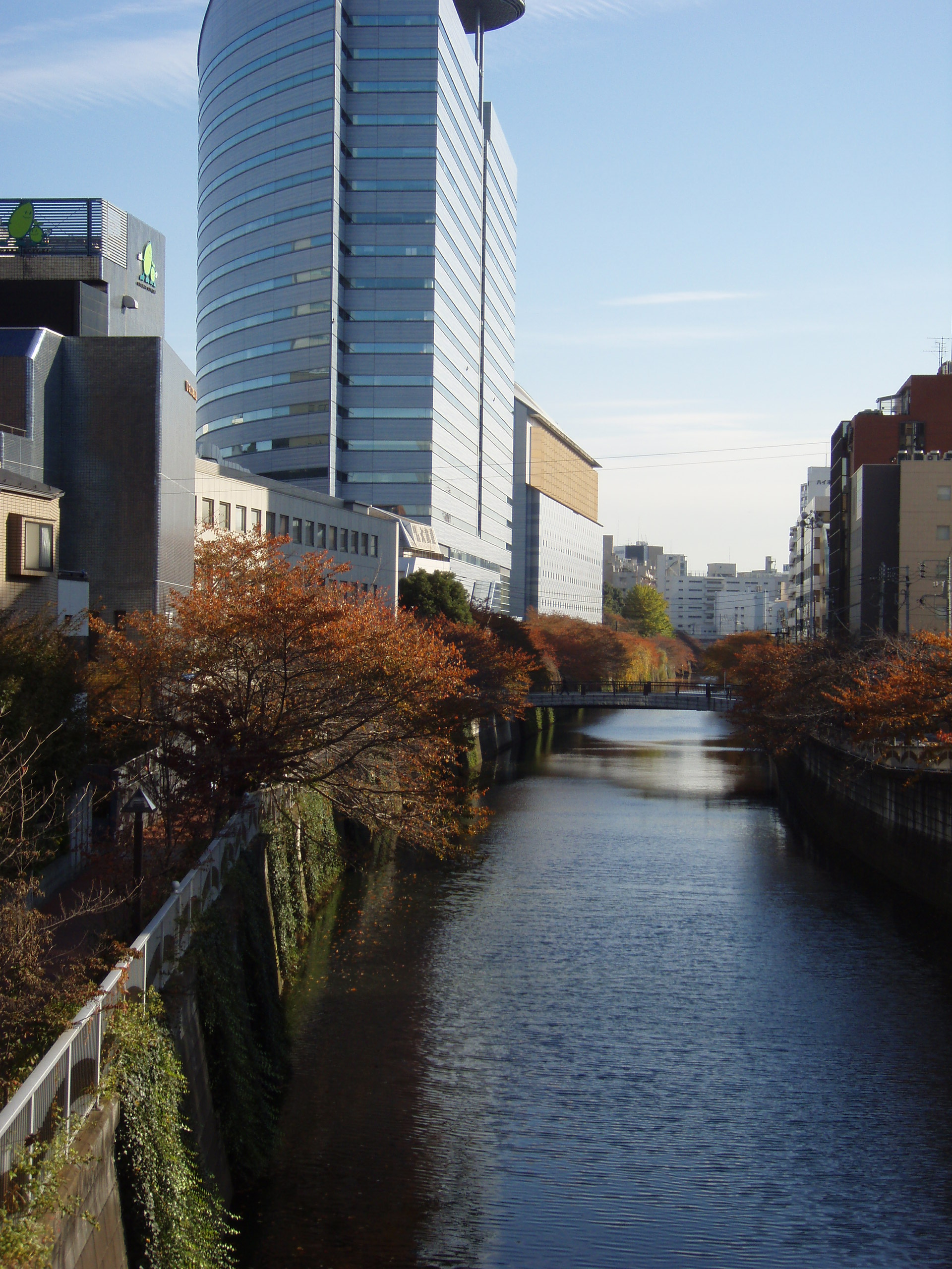 Alco Tower and Taiko-bashi. A view downstream and south-southeast of the Meguro River seen from Meguro-shinbashi in Meguro-ku, Tokyo.